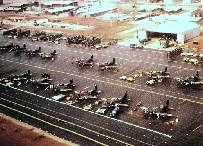 U.S. Air Force 56th Special Operations Wing Douglas A-1E and A-1H/J Skyraiders at Nakhon Phanom Royal Thai Air Force Base prepare for missions over Laos, ca. 1968-69.